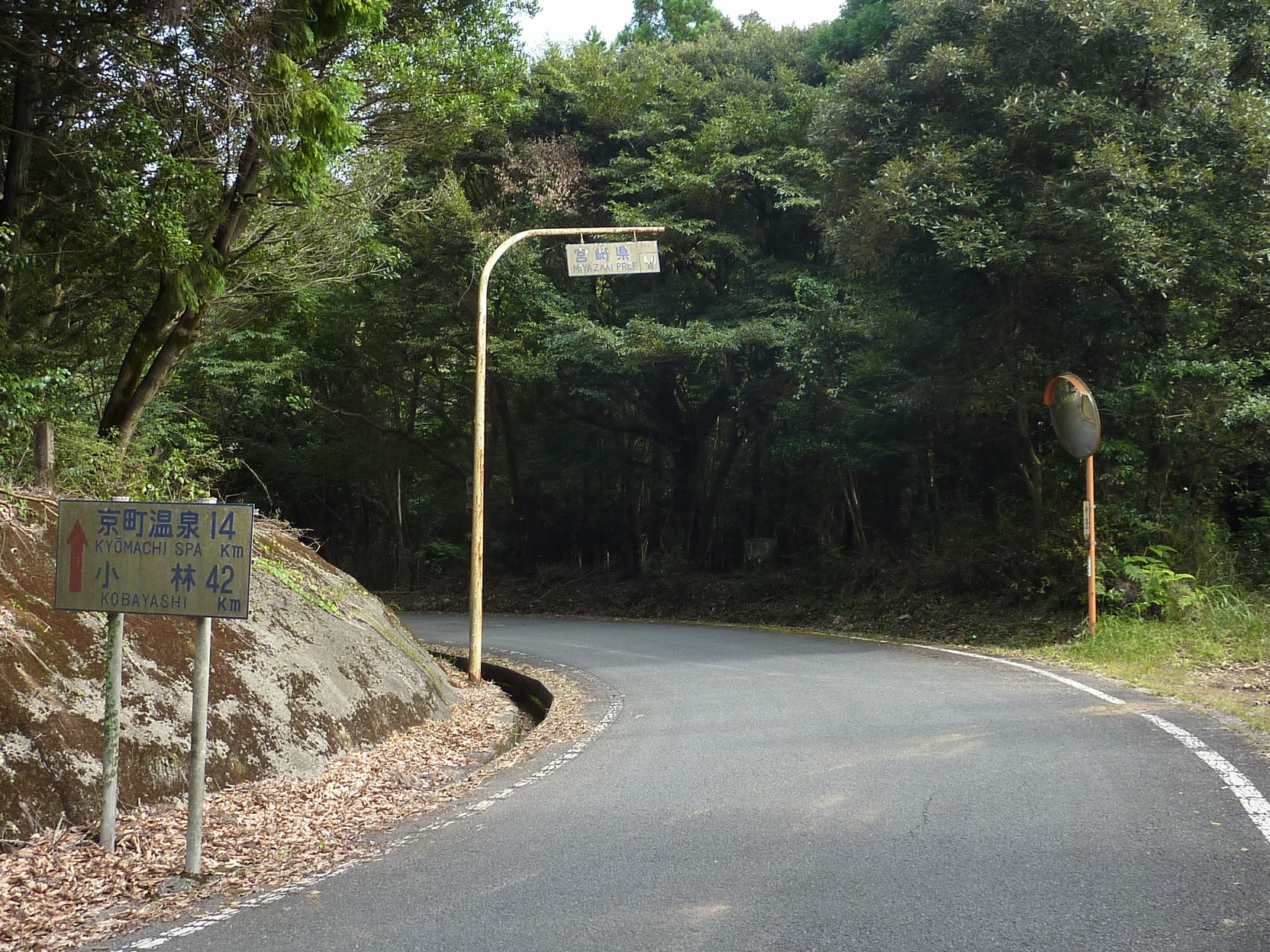 The National Route 447 - Prefectural Boundary (Ebino City, Miyazaki Prefecture, Japan).